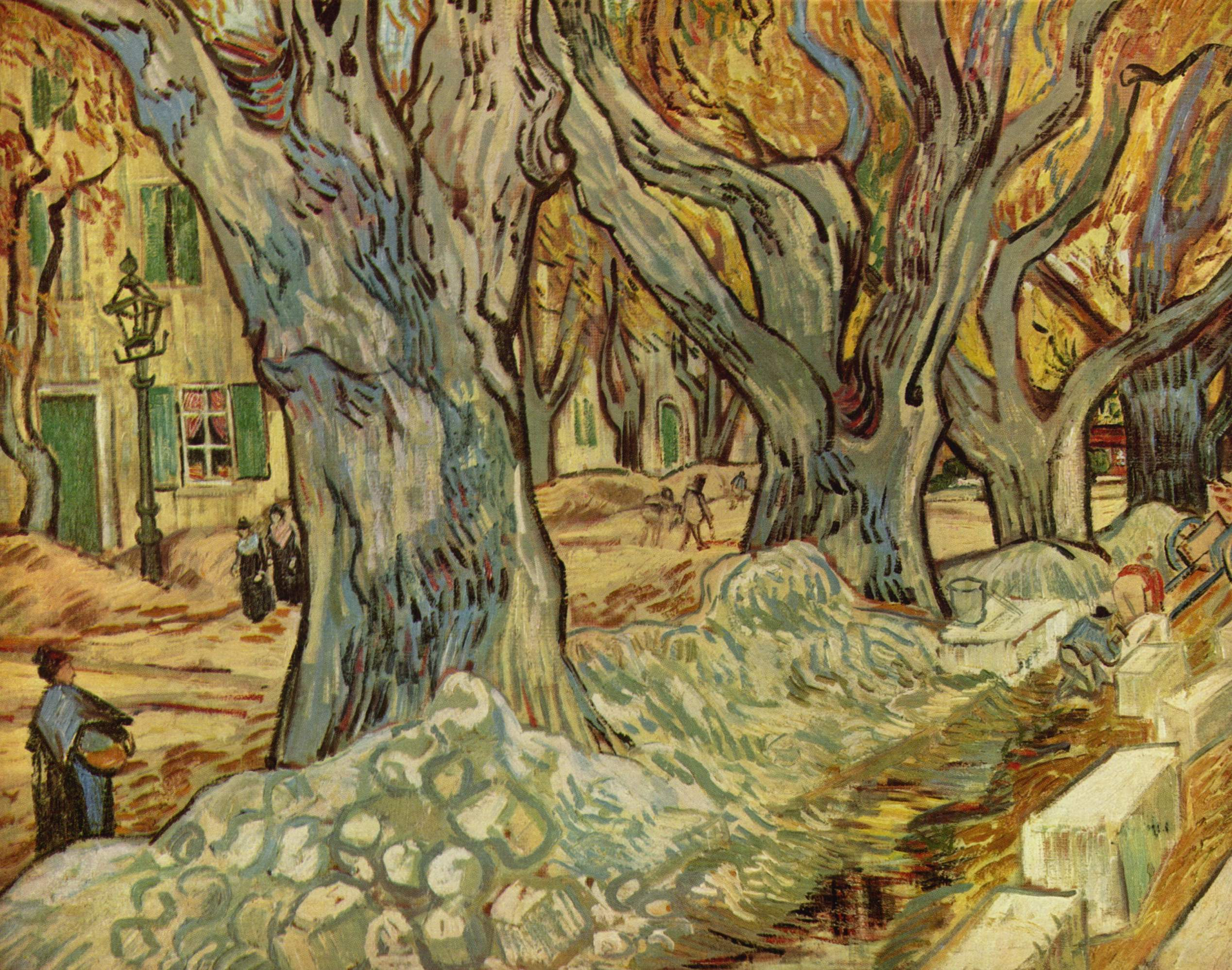 In 1889, after suffering a severe hallucinatory seizure, Van Gogh committed himself to an asylum near Saint-Rémy. While walking through the town that fall, he was impressed by the sight of men repairing a road beneath immense plane trees. Rushing to capture the yellowing leaves, he painted this composition on an unusual cloth with a pattern of small red diamonds, visible in the picture’s many unpainted areas. “In spite of the cold,” he wrote to his brother, “I have gone on working outside till now, and I think it is doing me good and the work too.” After painting this composition directly from nature, Van Gogh used it to produce a second version in the studio known as The Road Menders at Saint-Rémy. Painted on a traditional canvas covered by a ground layer, the second version is more restrained, the explosive yellows balanced by larger areas of cool color.[1] ↑ Cleveland Museum of Art